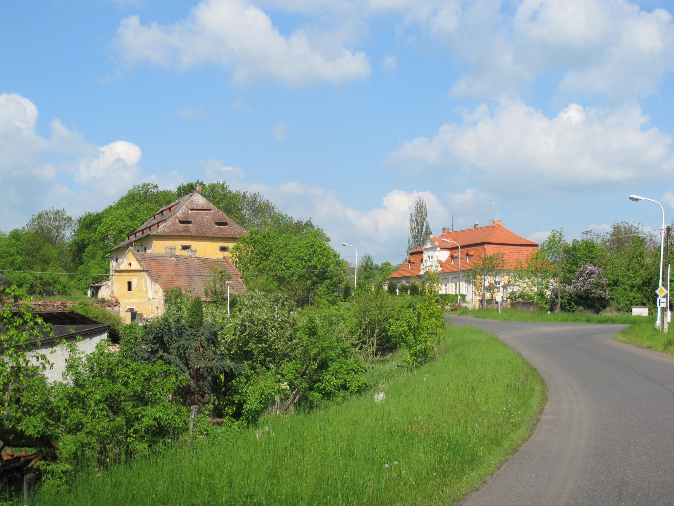 Rests of castle farm and former inn